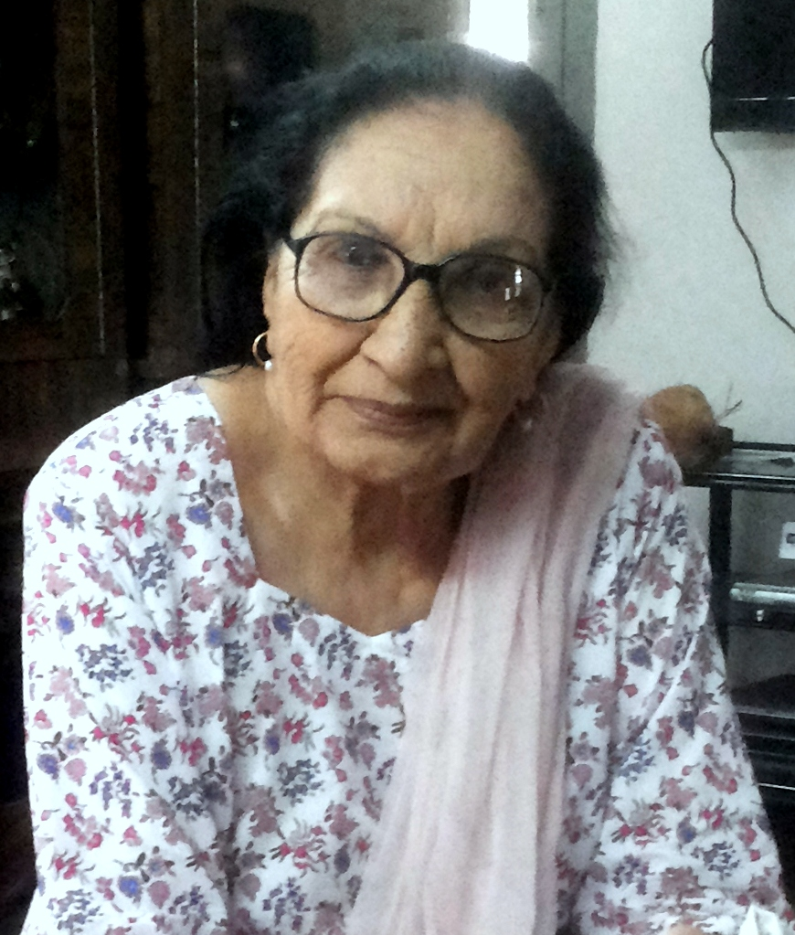 Photograph of the Punjabi Writer